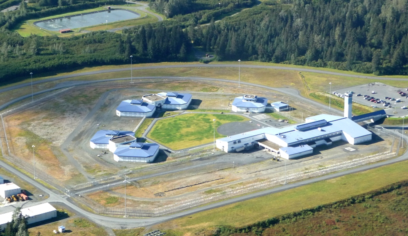 Spring Creek Correctional Center, a maximum security prison in Seward, Alaska.